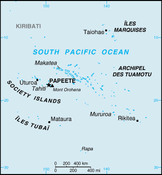 A map of French Polynesia, showing major towns.